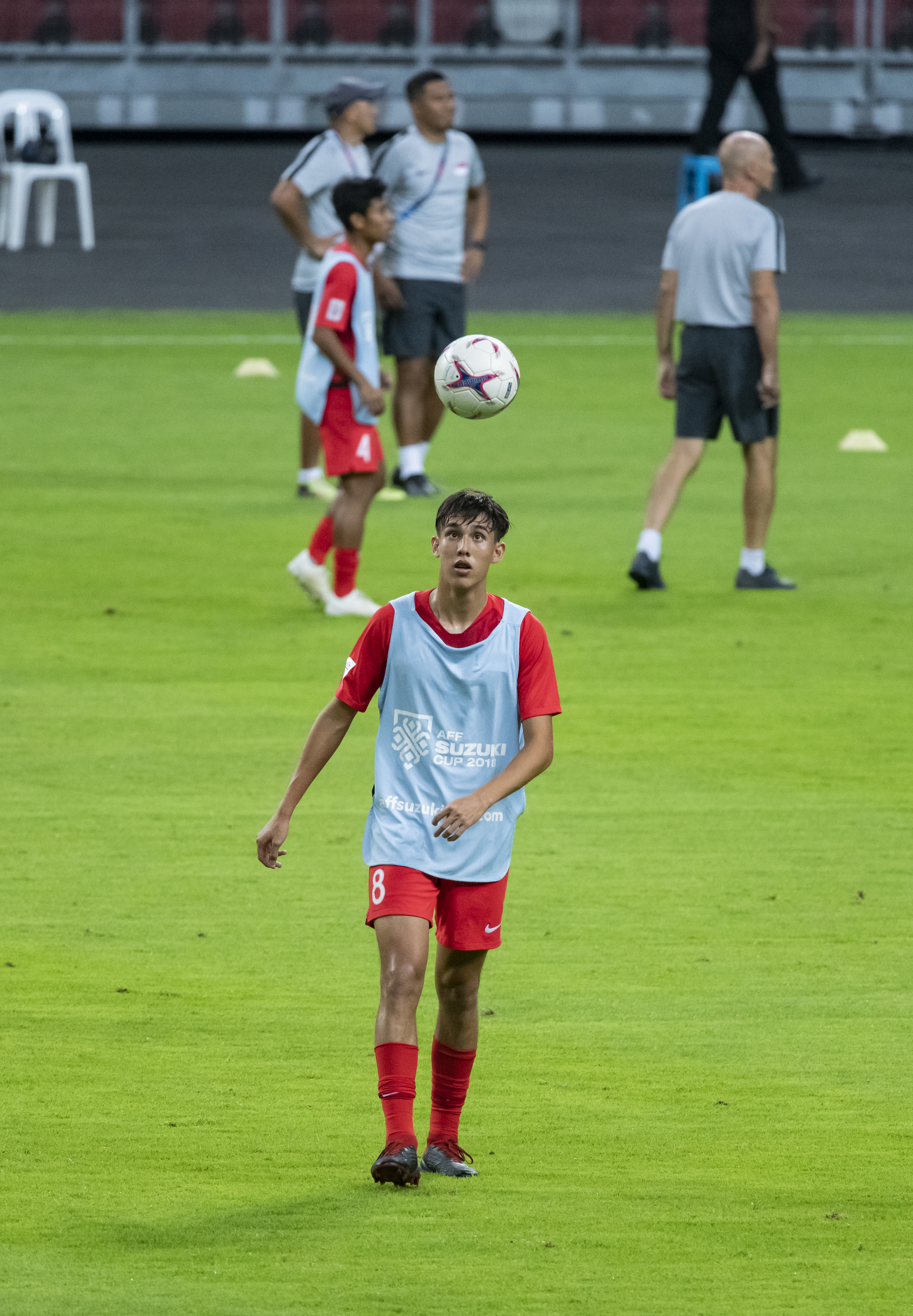 Suzuki Cup v Indonesia